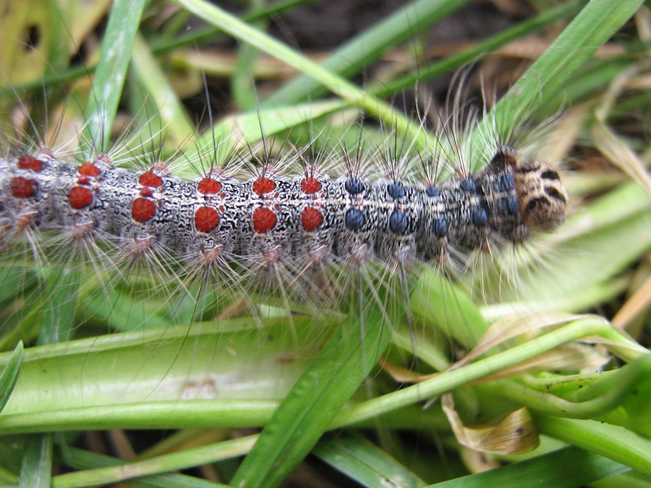 Caterpillar of the Gypsy Moth (Lymantria dispar)